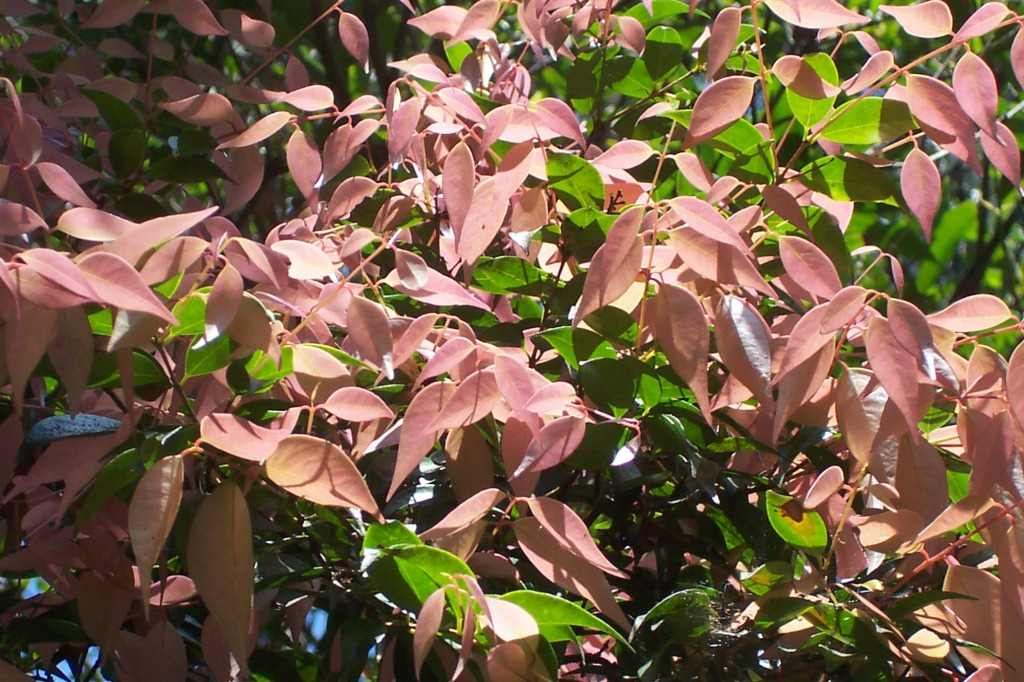 Syzygium luehmannii new growth, Mt Keira Botanic Gardens